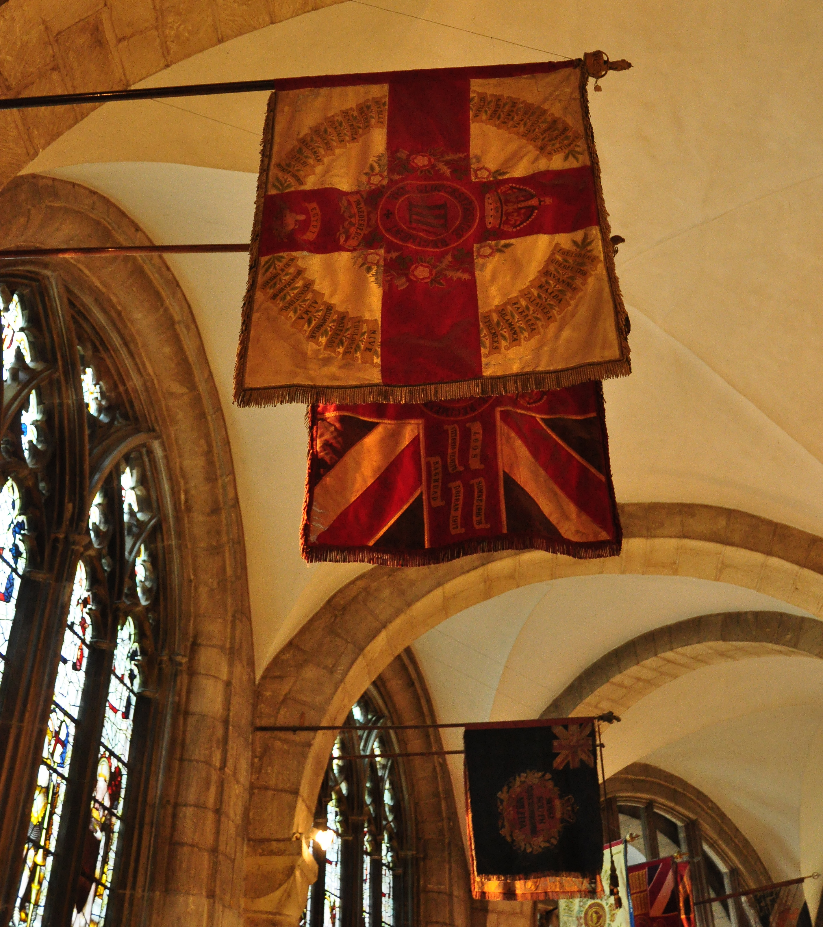 Laid-up colours of the Gloucestershire Regiment in Gloucester Cathedral.